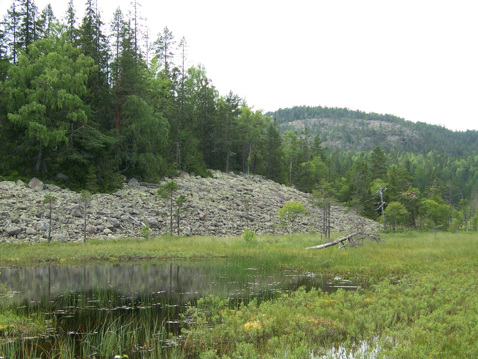 General view on terrain at Skuleskogen National Park